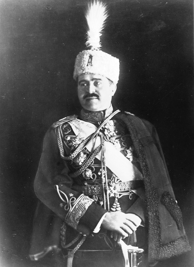 Komandant kraljeve garde